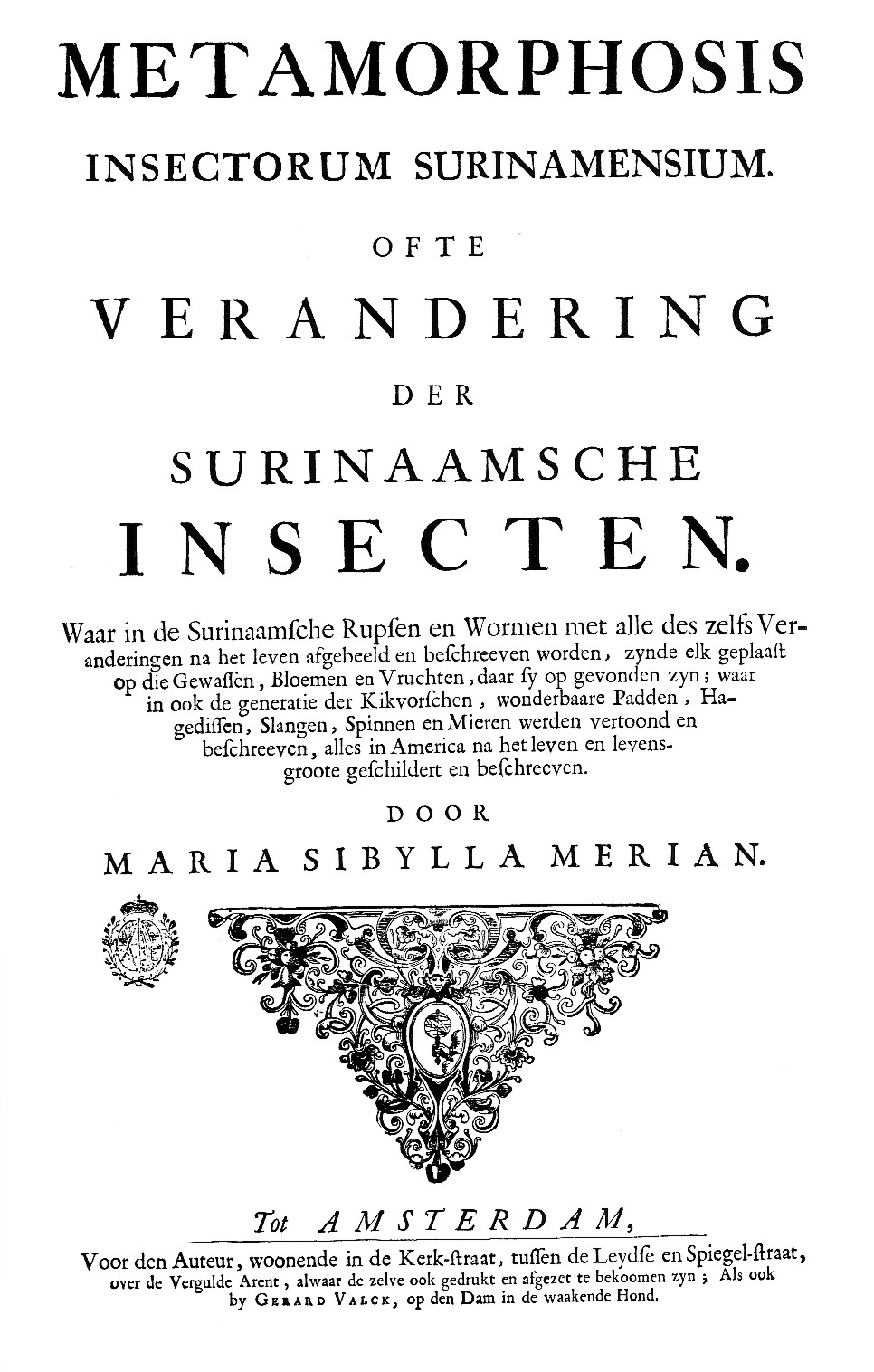 Title-page of Metamorphosis insectorum Surinamensium